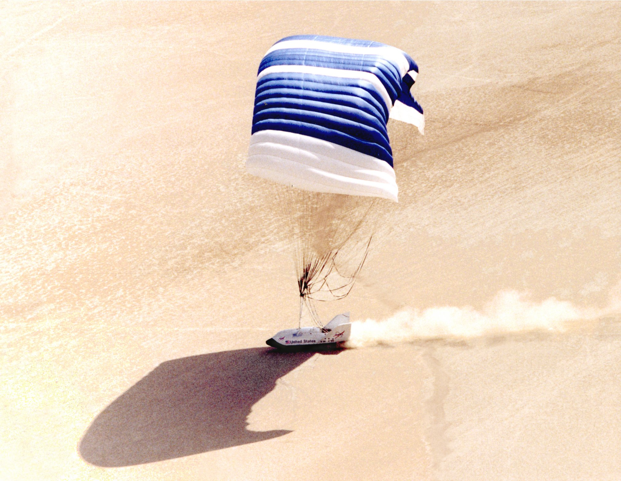 X-38 Vehicle #132 in Flight with Deployed Parafoil during First Free Flight.